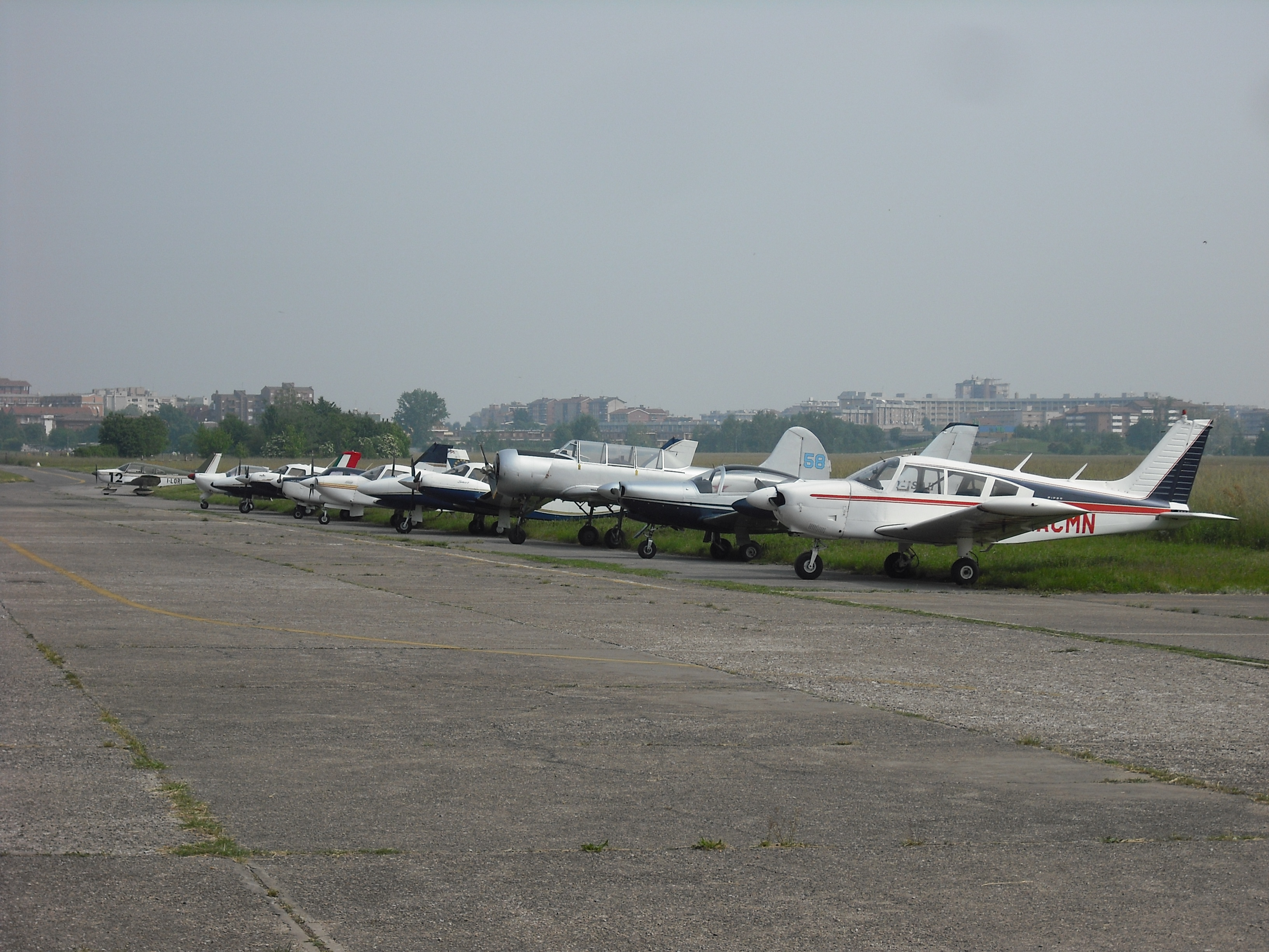 General aviation aircraft lined up in front of the hangars of Milano-Bresso airport, Milan, Italy.